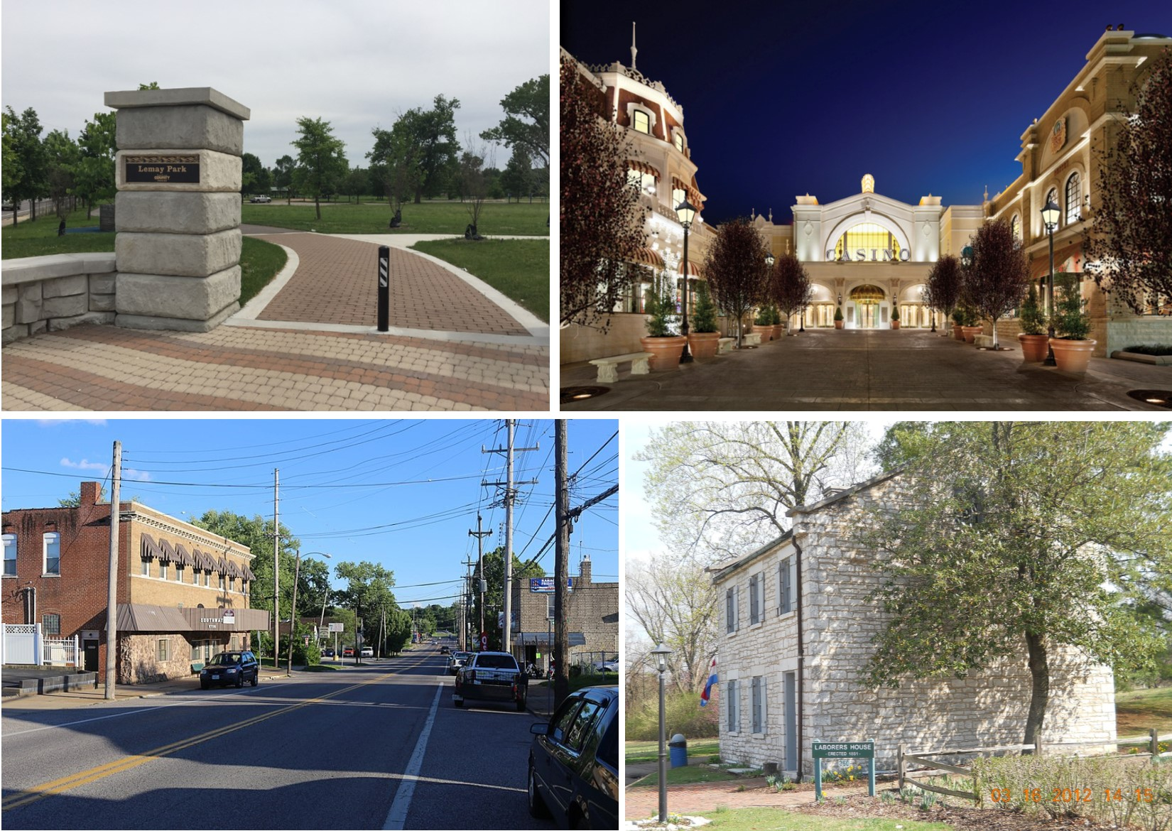 Lemay, Missouri montage